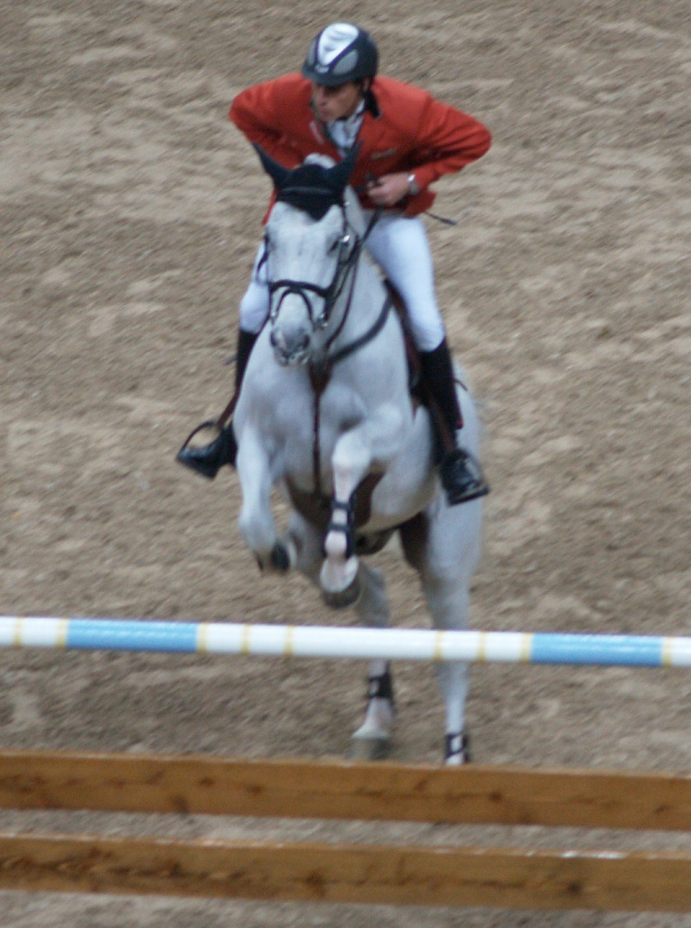 Christian Ahlmann with Cöster, FEI-World Cup Final 2007, Las Vegas, NV, USA